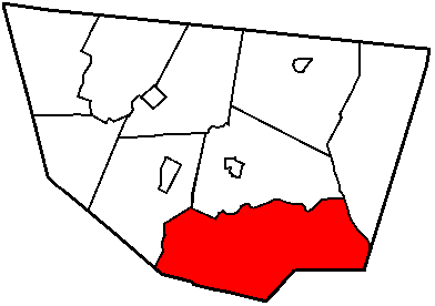 Map of Sullivan County with township and municipal bondaries is taken from US Census website [1] and modified by User:Ruhrfisch in August 2005. My modifications licensed under the GNU Free Documentation License. Source: US Census website [2], modified by User:Ruhrfisch